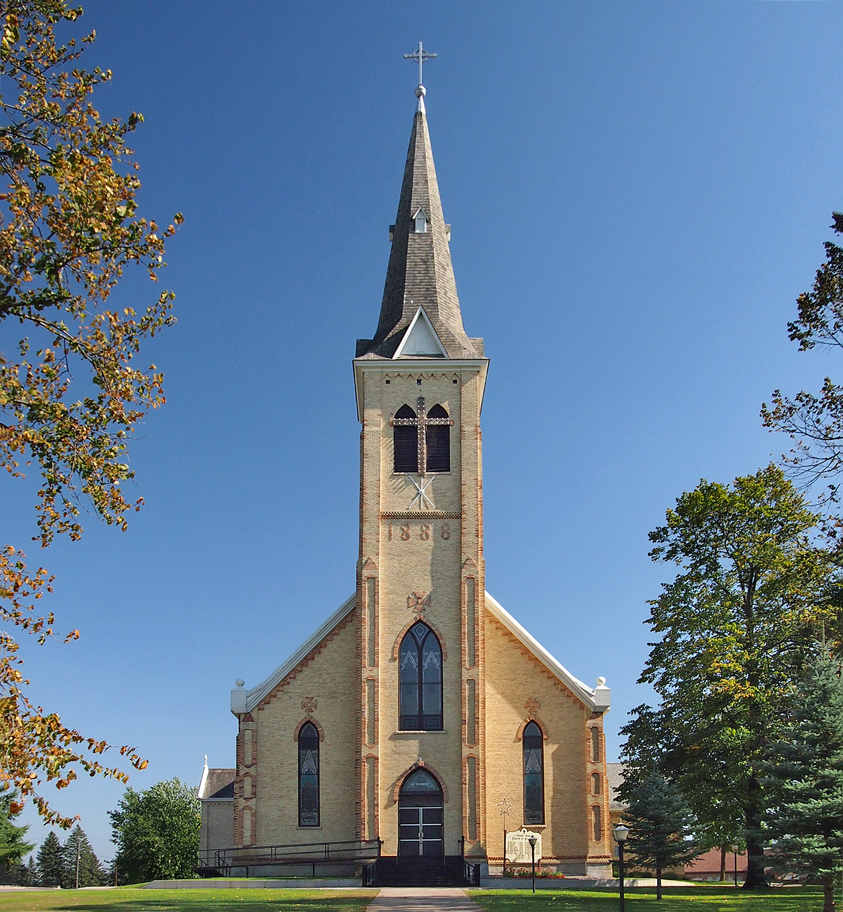 St. Joseph's Church, Pierz, Minnesota, USA. Viewed from the west.